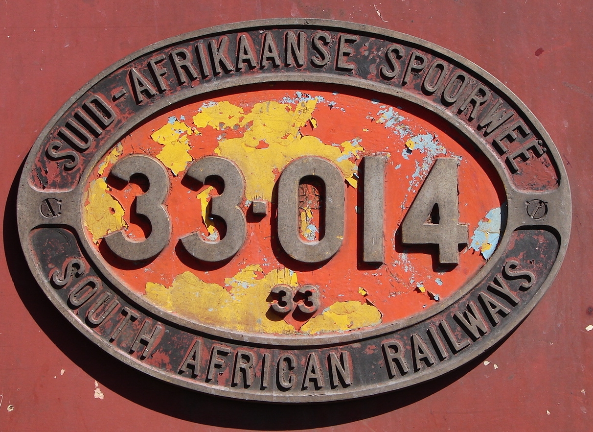 South African Class 33-000 33-014 number plate Builder's Number: GE 35470 Type: GE U20C Location: Worcester, Western Cape